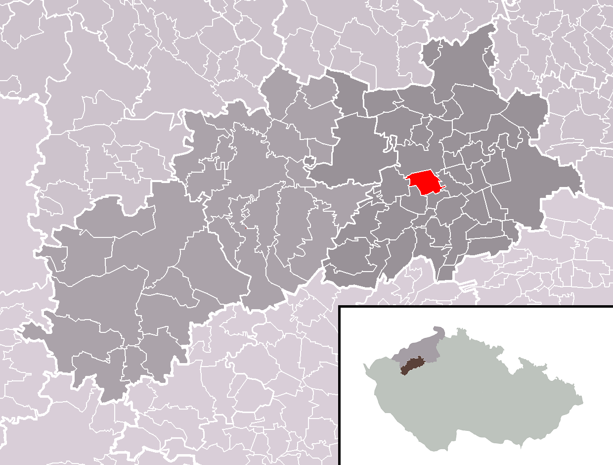 Location of Cítoliby market town within Louny District and administrative area of Louny as a Municipality with Extended Competence.